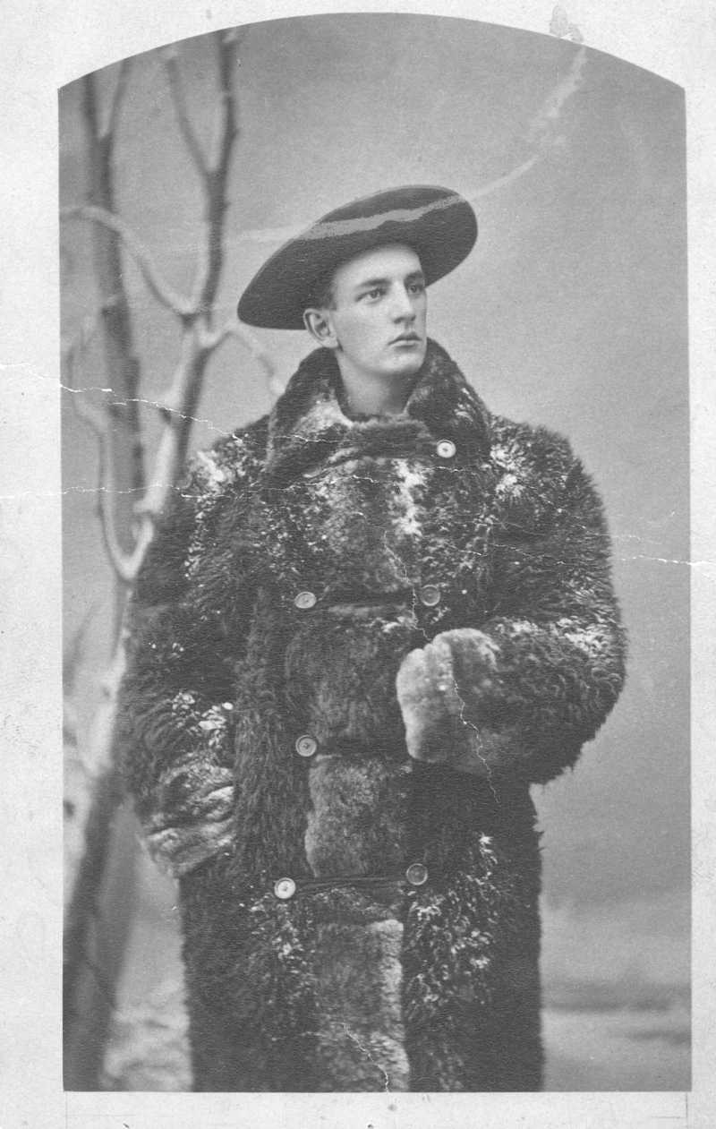 James Willard Schultz as a young man, 1889